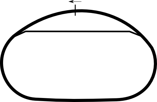 Layout of Ovalo Aguascalientes